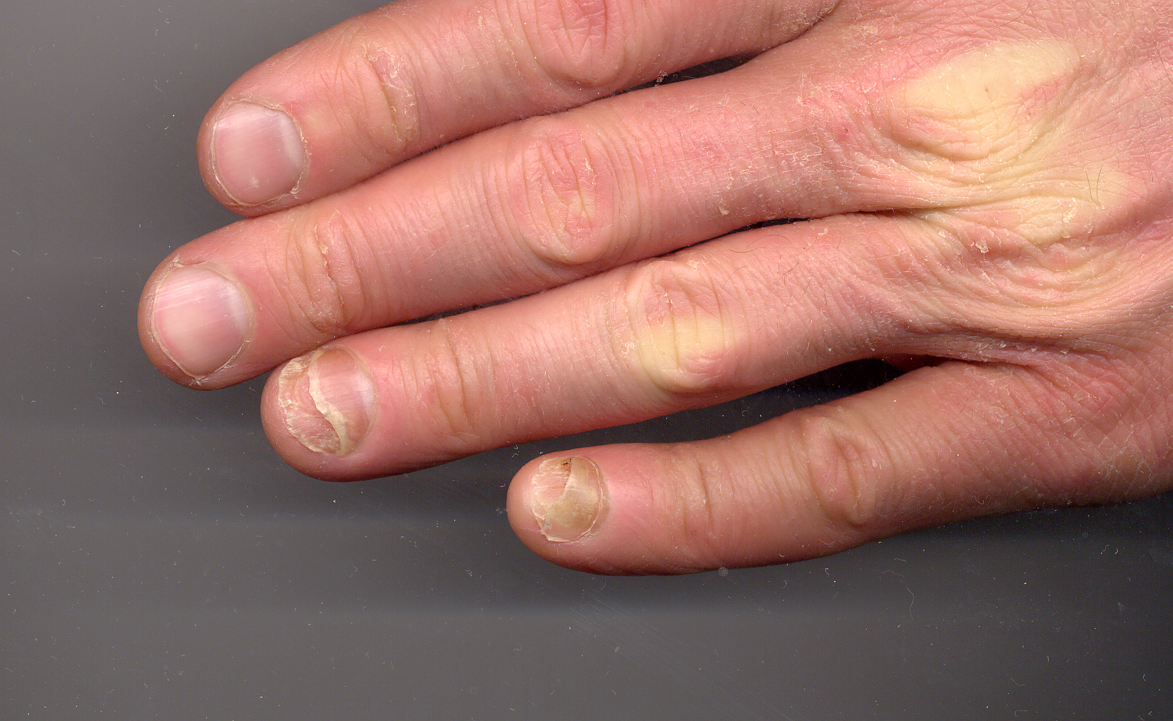 Onycholysis on my (CopperKettle) left hand. Ring and little fingers affected. Fungal probe negative. Causes unknown. Image acquired using EPSON Perfection 640 flatbed scanner.